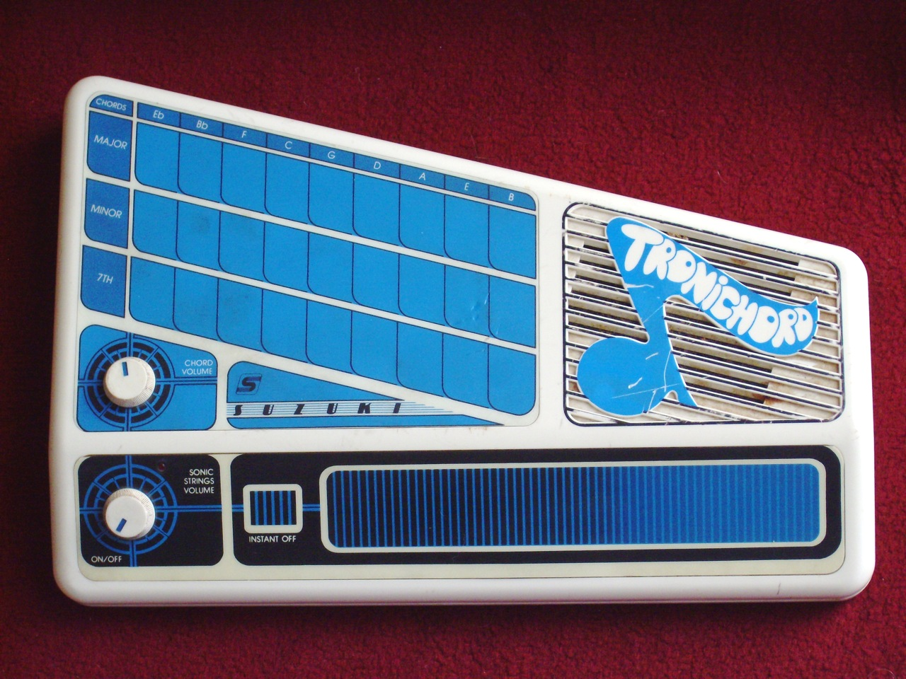 Suzuki Tronichord Instrument, mid-1980s